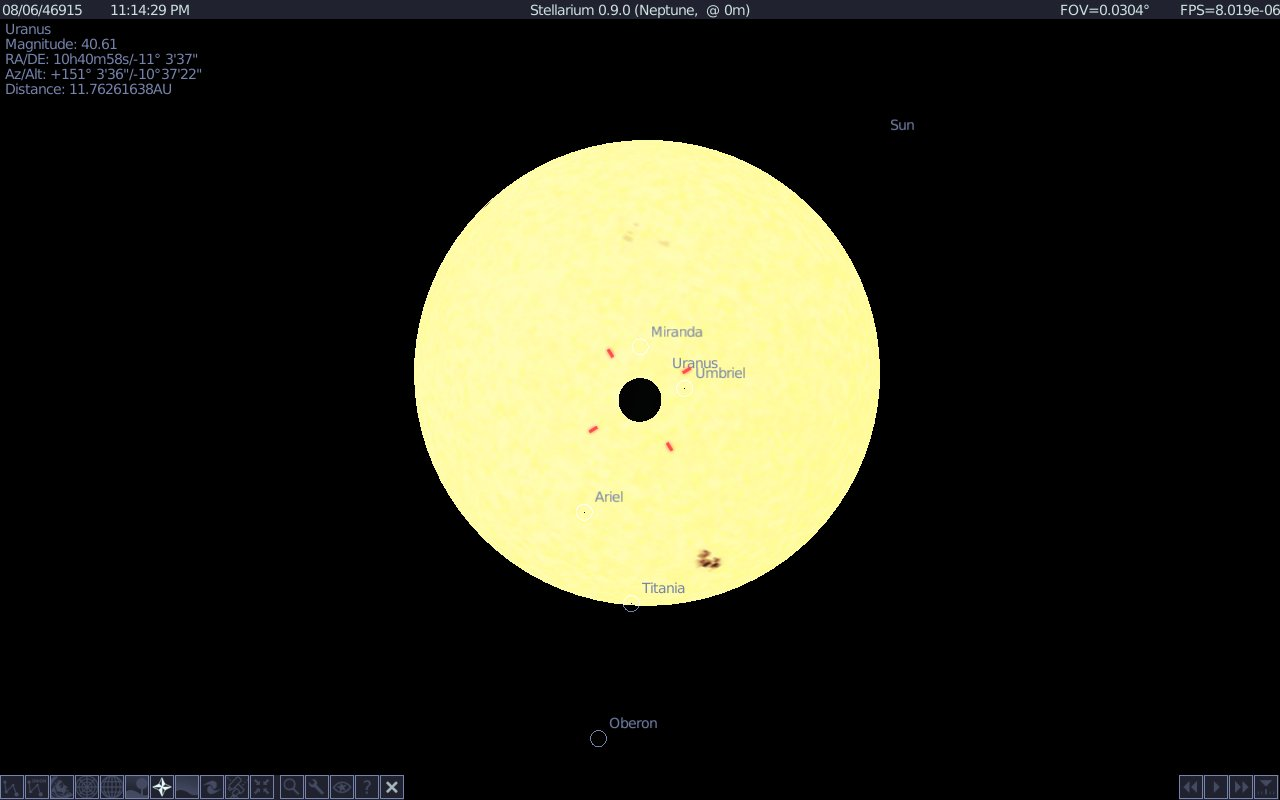 Image of a transit of Uranus as seen from Neptune, 6 August 46,915 23:14 UTC. A screenshot from Stellarium, which is licensed under the GPL.